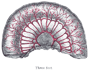 No caption.